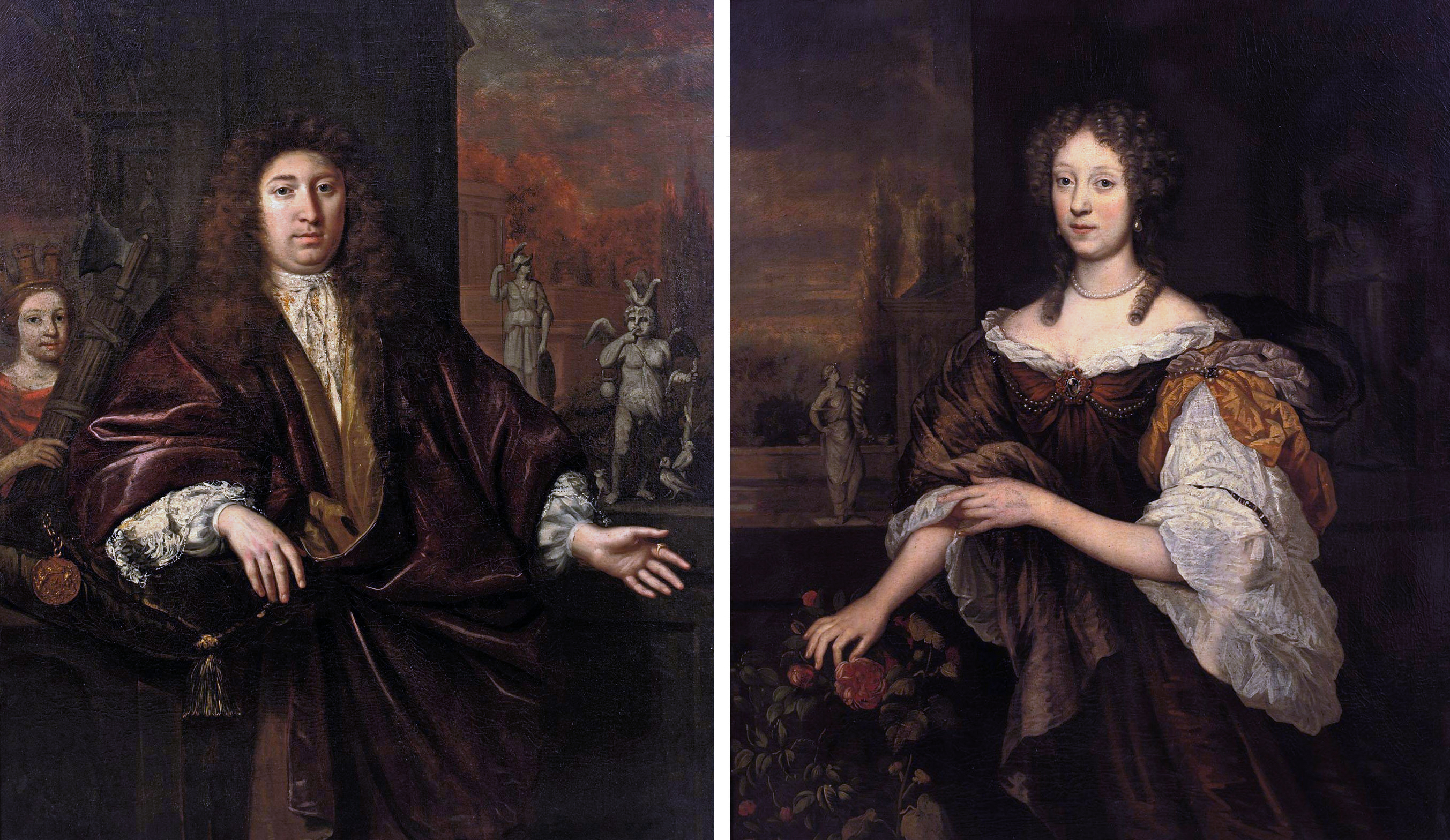 Gisbert Cuper (1644-1716), in a purple robe, standing with his right arm resting on a pillow with a gold medal of the States General, an allegorical figure of the 'stedenmaagd' of Deventer holding the fasces and sculptures of Minerva and Harpocrates beyond; Aleida van Suchtelen (1648-1689), standing in a red and yellow dress, with pearls and white lace sleeves, picking a flower, sculptures of the allegorical figures of Caritas and Abundantia beyond